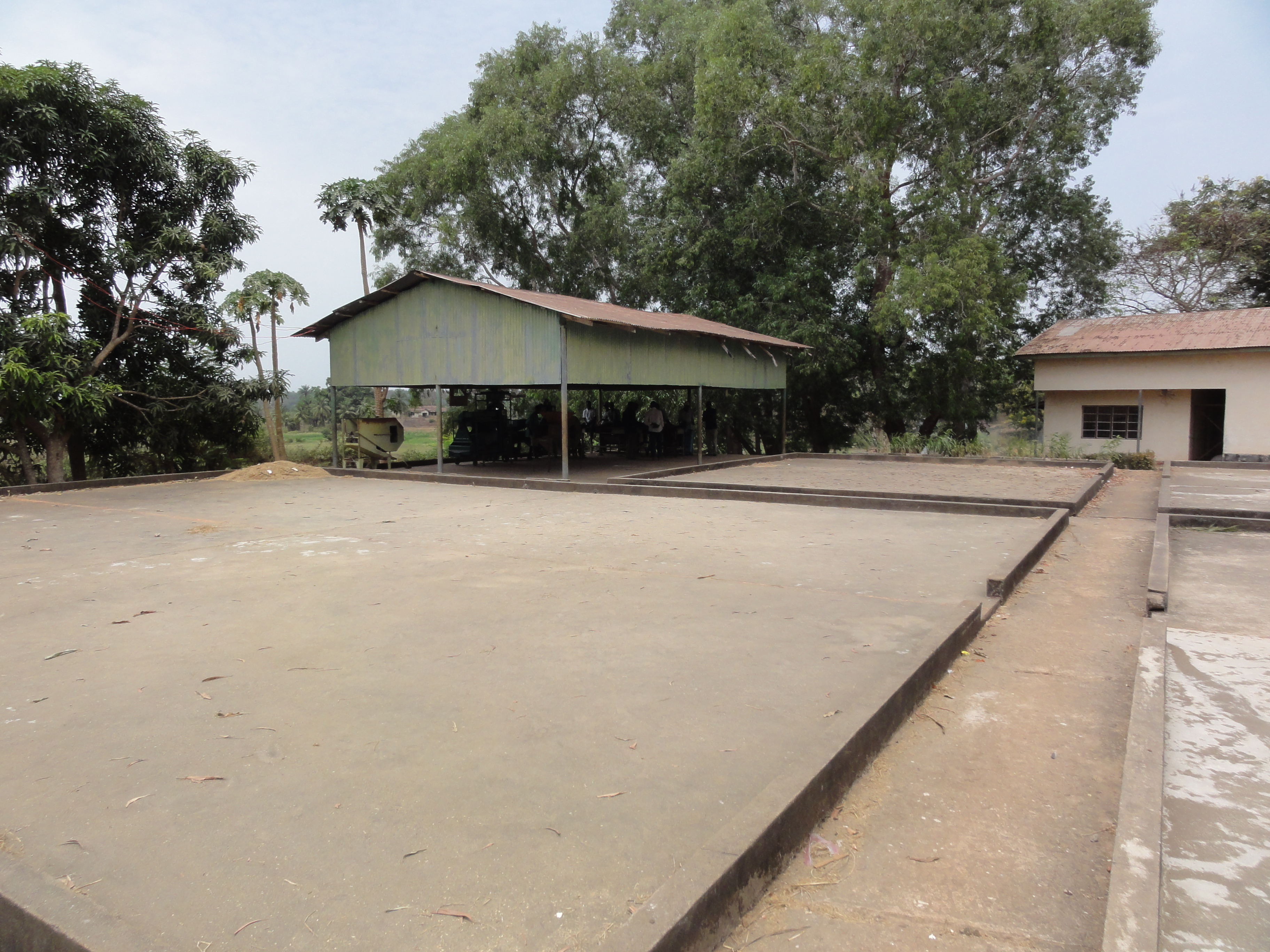 SLARI's rice research station in Rokupr, Sierra Leone